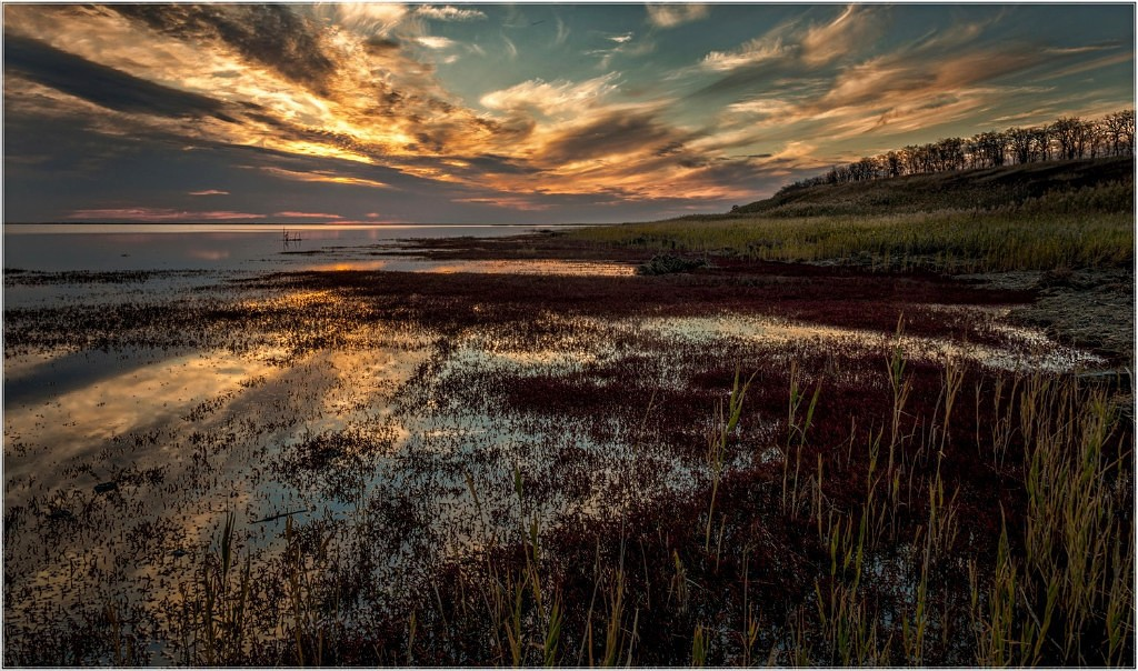 Lake Khanskoe